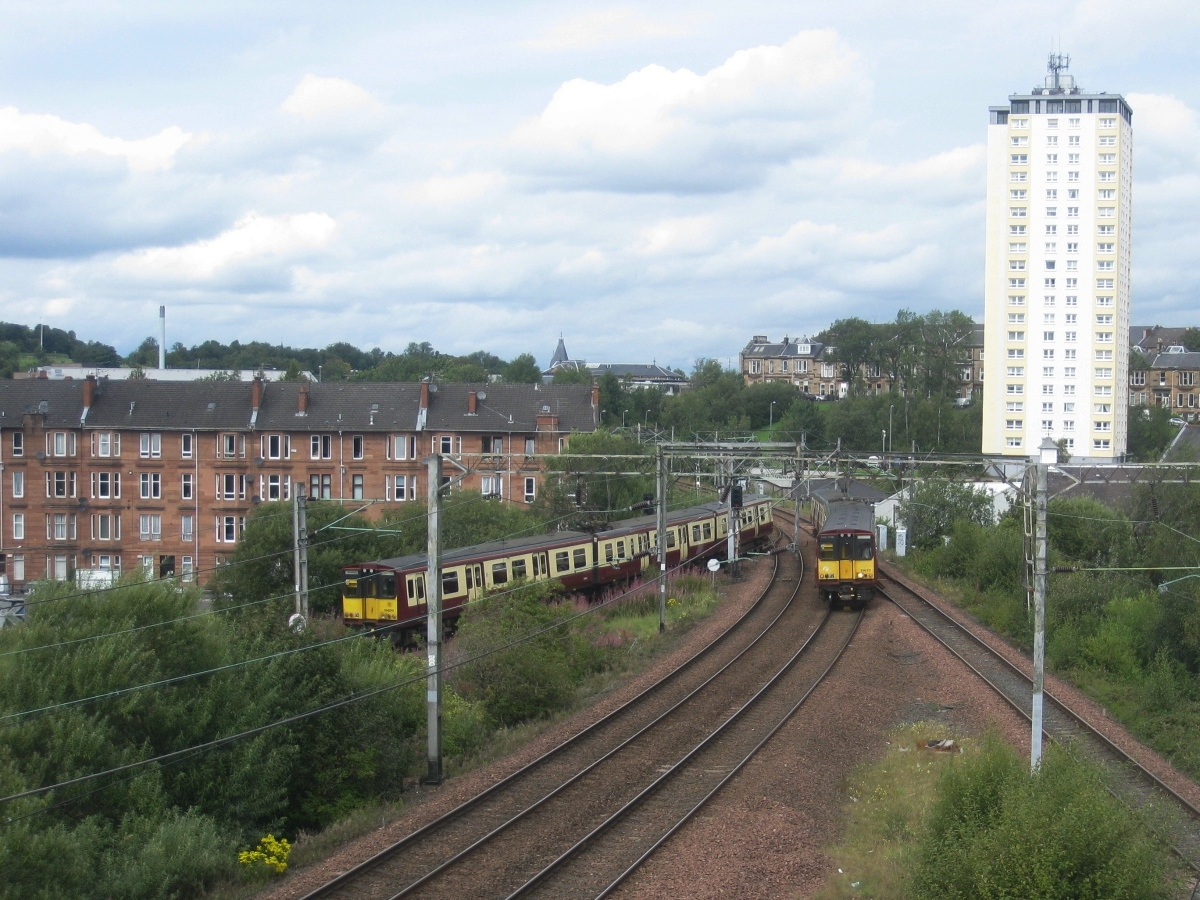 Class 314 units passing at Cathcart North Junction, Glasgow, on 19 August 2011.